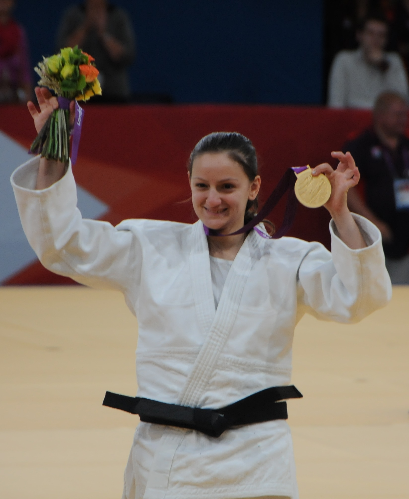 Afag Sultanova at the 2012 Summer Paralympics